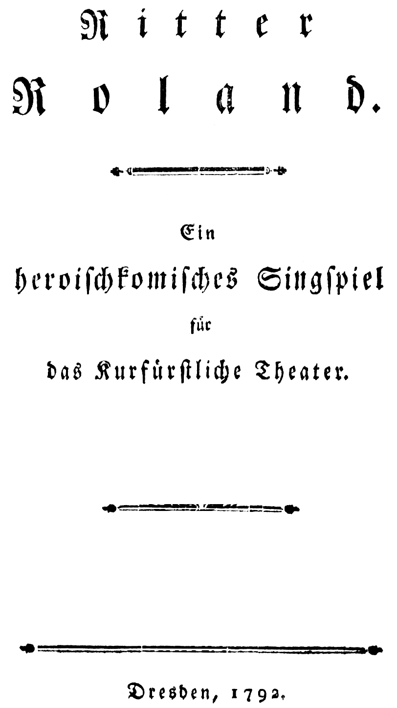 Joseph Haydn - Orlando paladino - german title page of the libretto - dresden 1792